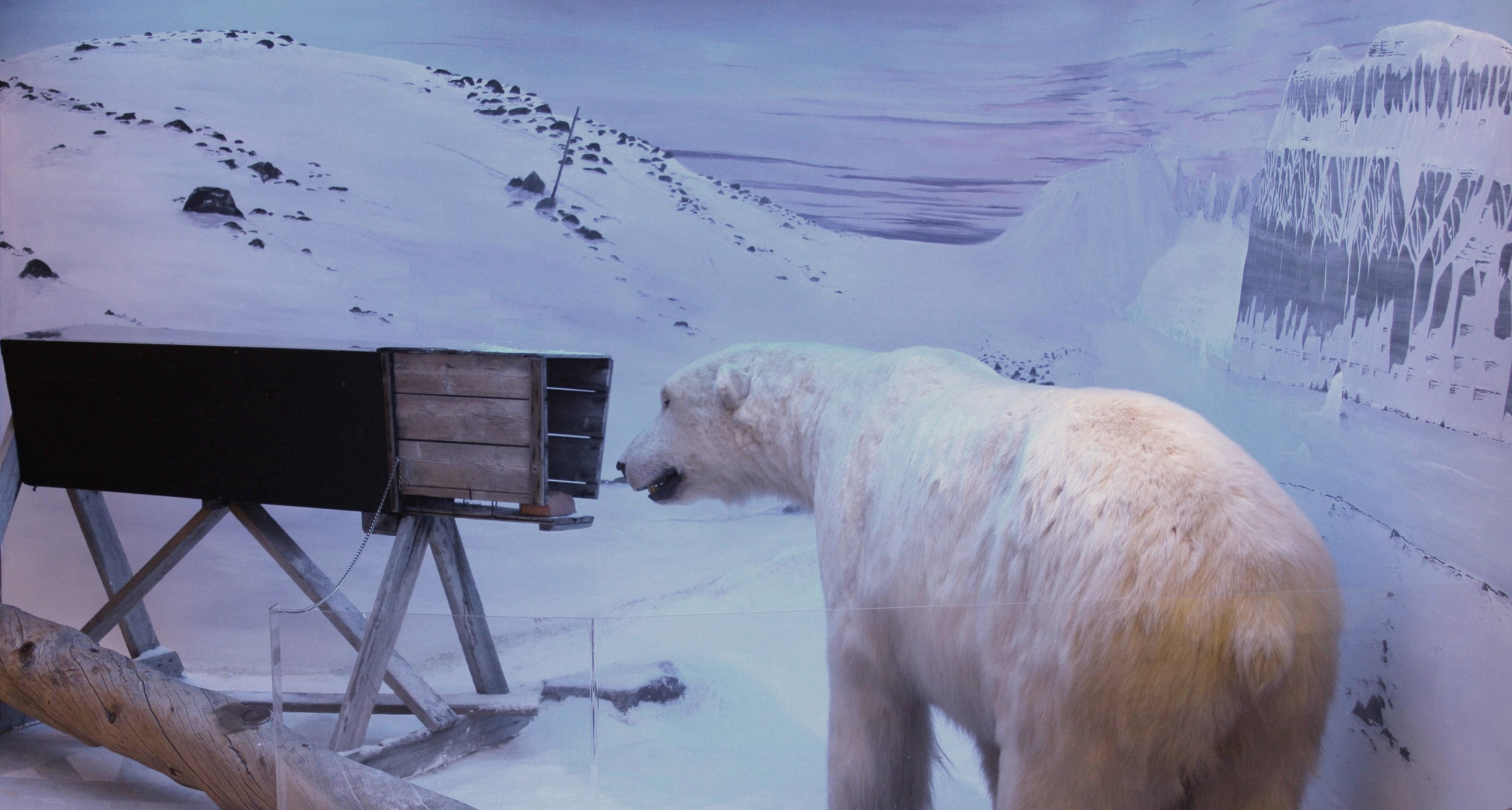 Polar Bear trap, exhibition of Polarmuseet (Polar Museum), Tromsö, Norway. Replica of trap constructed at Svalbard, Arctica. Slightly altered colours, removed text plate. Own work, own alteration.